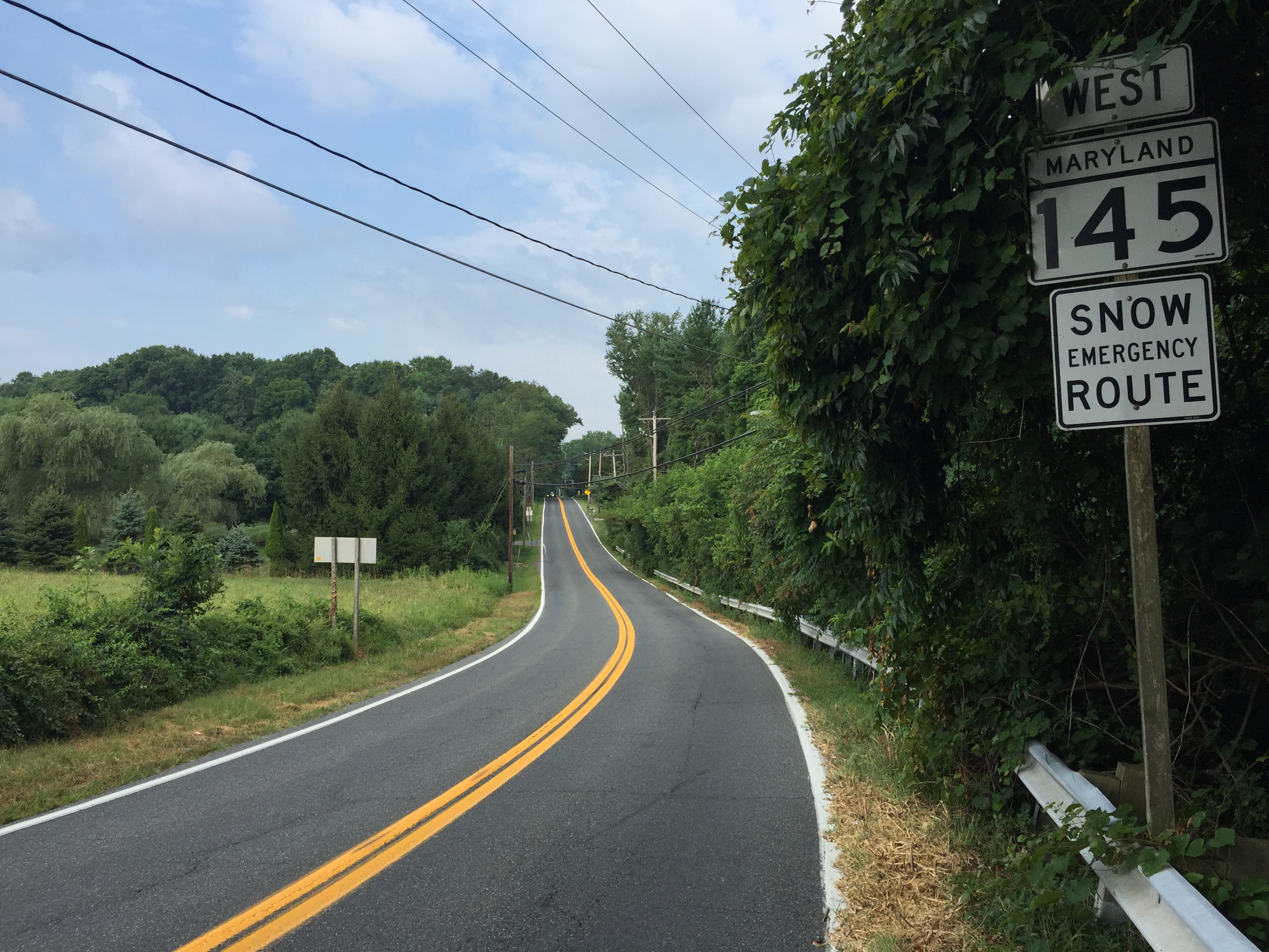 View west along Maryland State Route 145 (Sweet Air Road) just west of Maryland State Route 165 (Baldwin Mill Road) in northern Baltimore County, Maryland